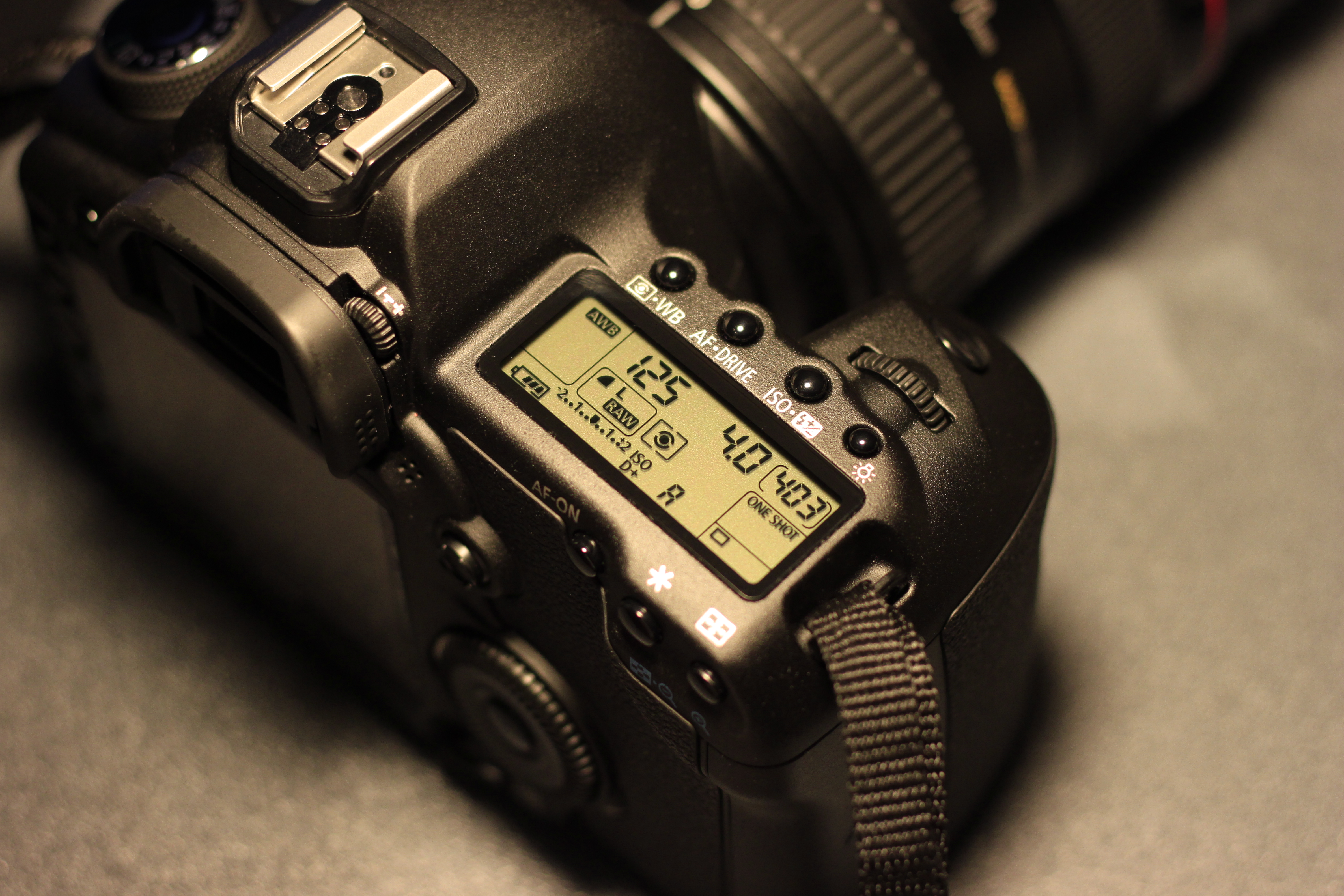 Canon EOS 5D Mark II shoulder screen